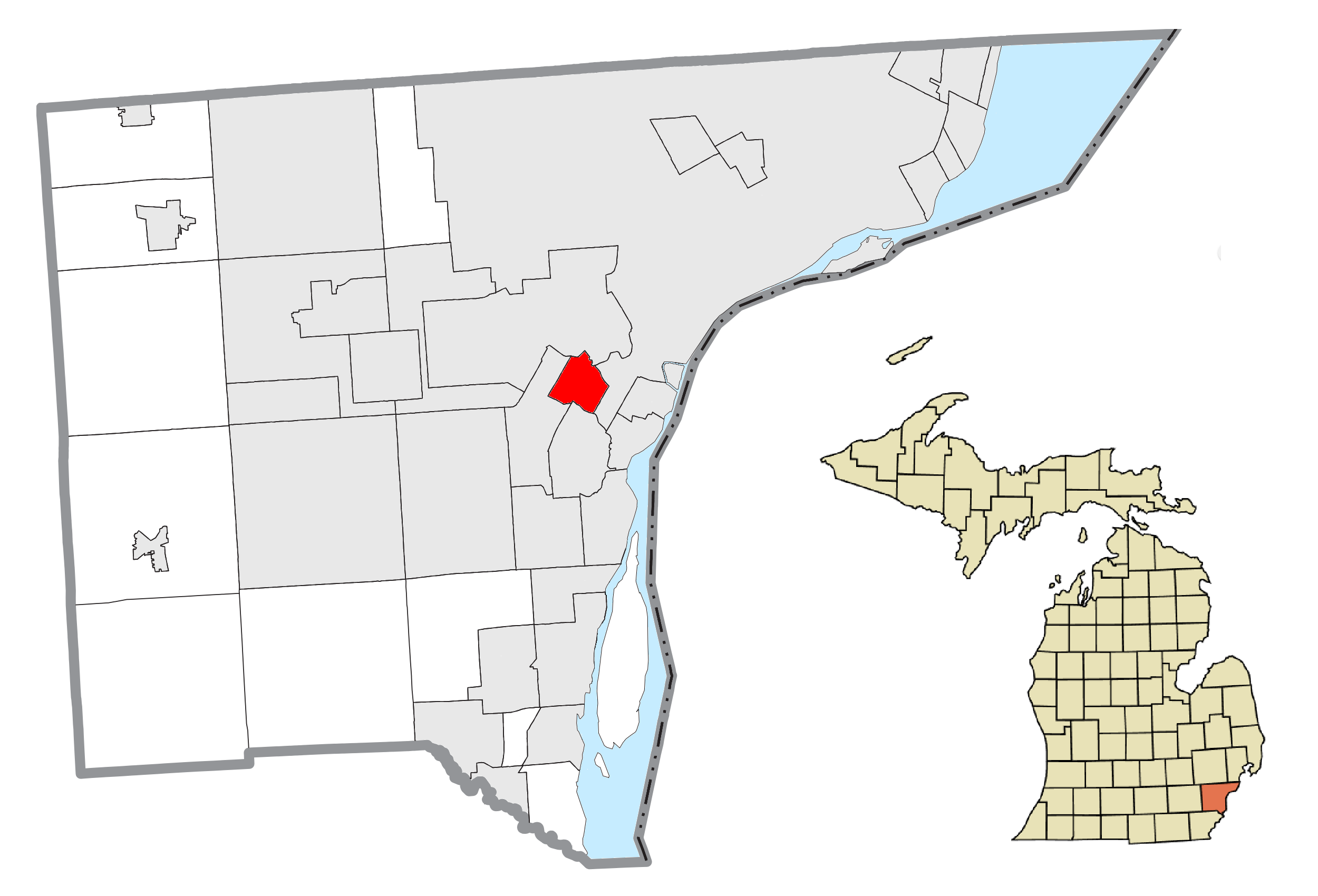 Melvindale, MI